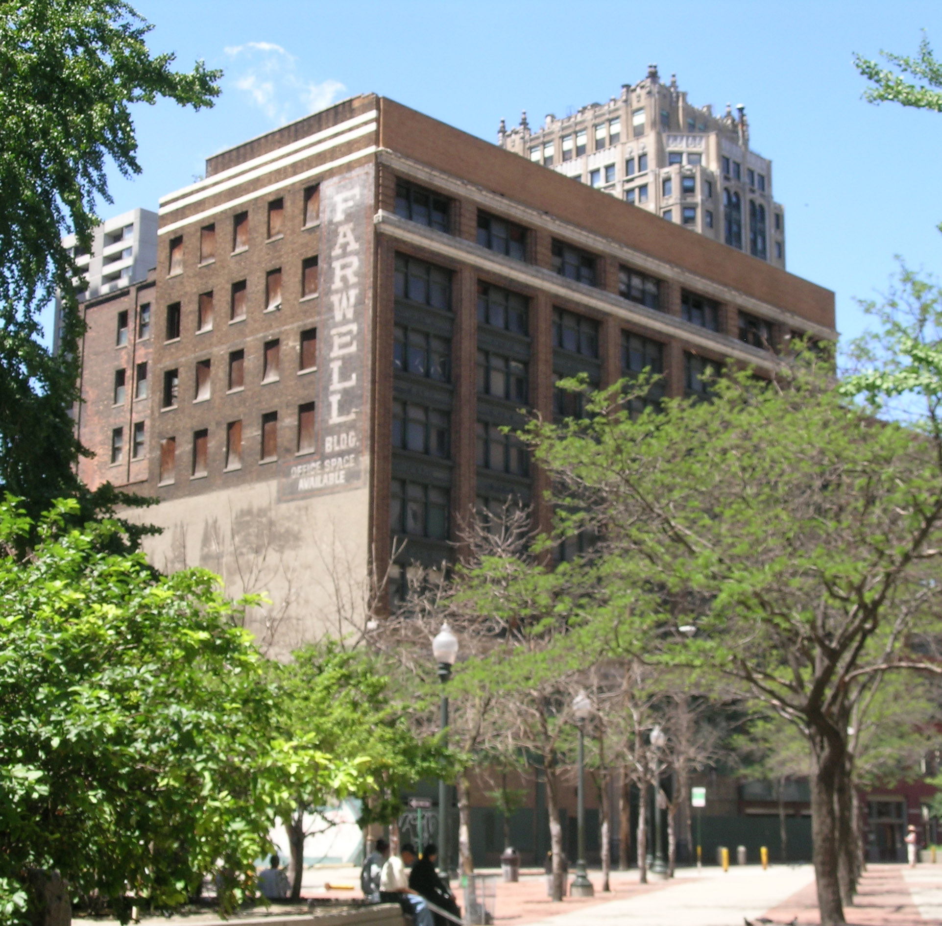 Farwell Building — in Downtown Detroit, Michigan. The 1915 brick Chicago school style building is a Michigan State Historic Site, and is on the National Register of Historic Places in Detroit.